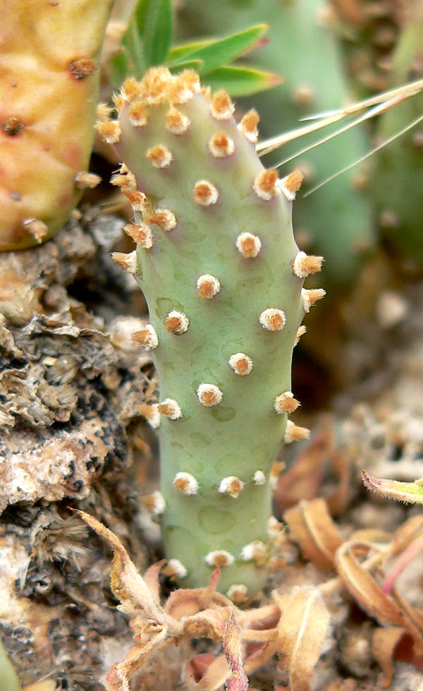 Photo of Opuntia basilaris var. brachyclada at the Regional Parks Botanic Garden